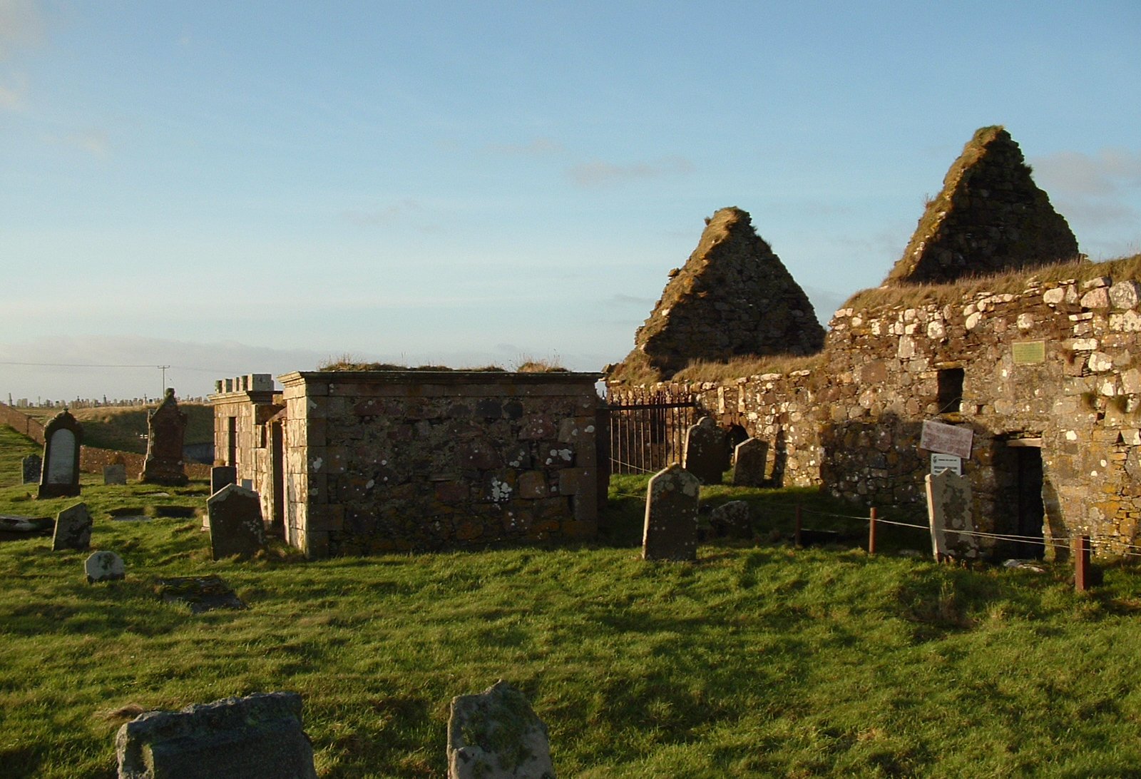 Photographed by Morris R. MacIver 24 December 2005.